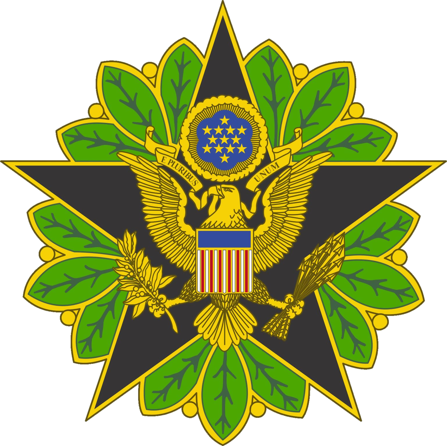 United States Army Staff Identification Badge.